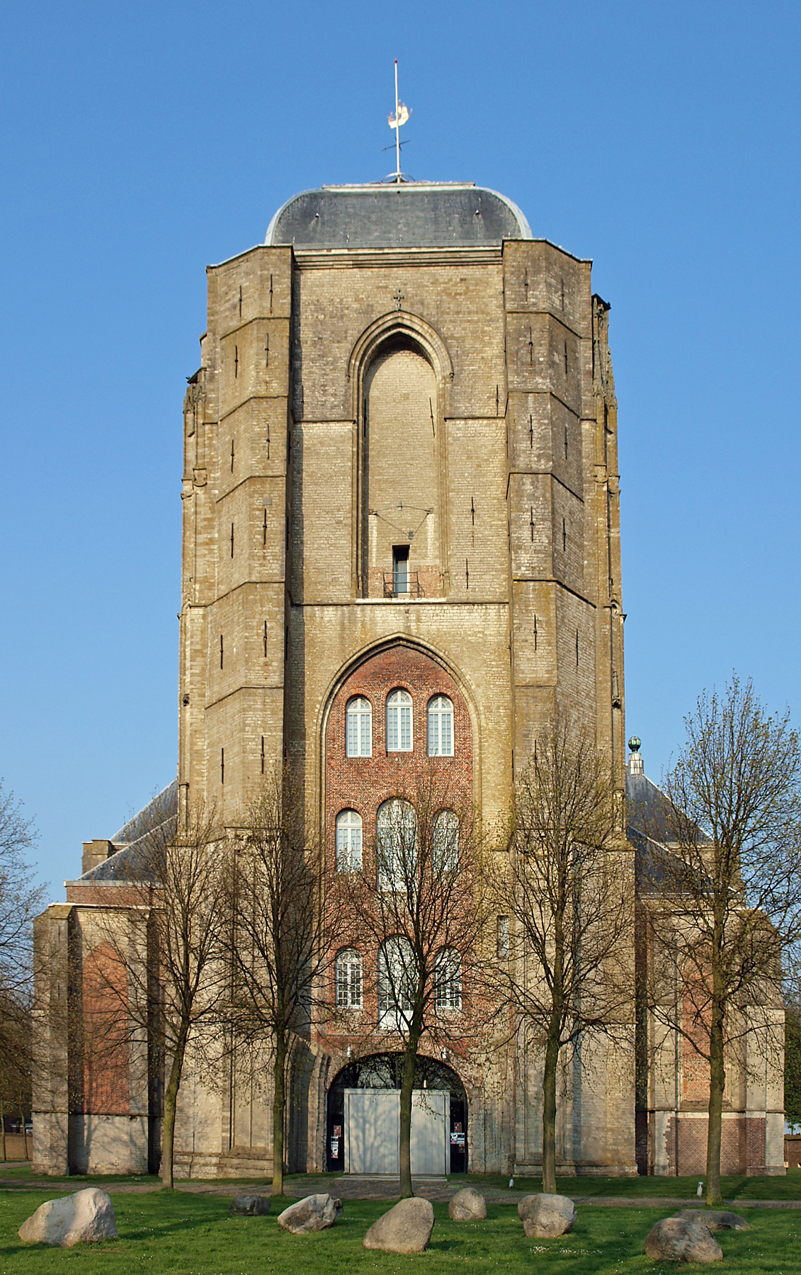 Church in Veere The Netherlands